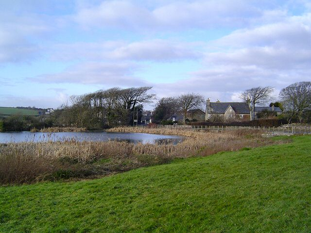 Village pond at St Brides. This well known pond is the home of lots of ducks and other water birds. Located beside the Wick road and is opposite the popular Farmer's Arms pub (just out of picture)